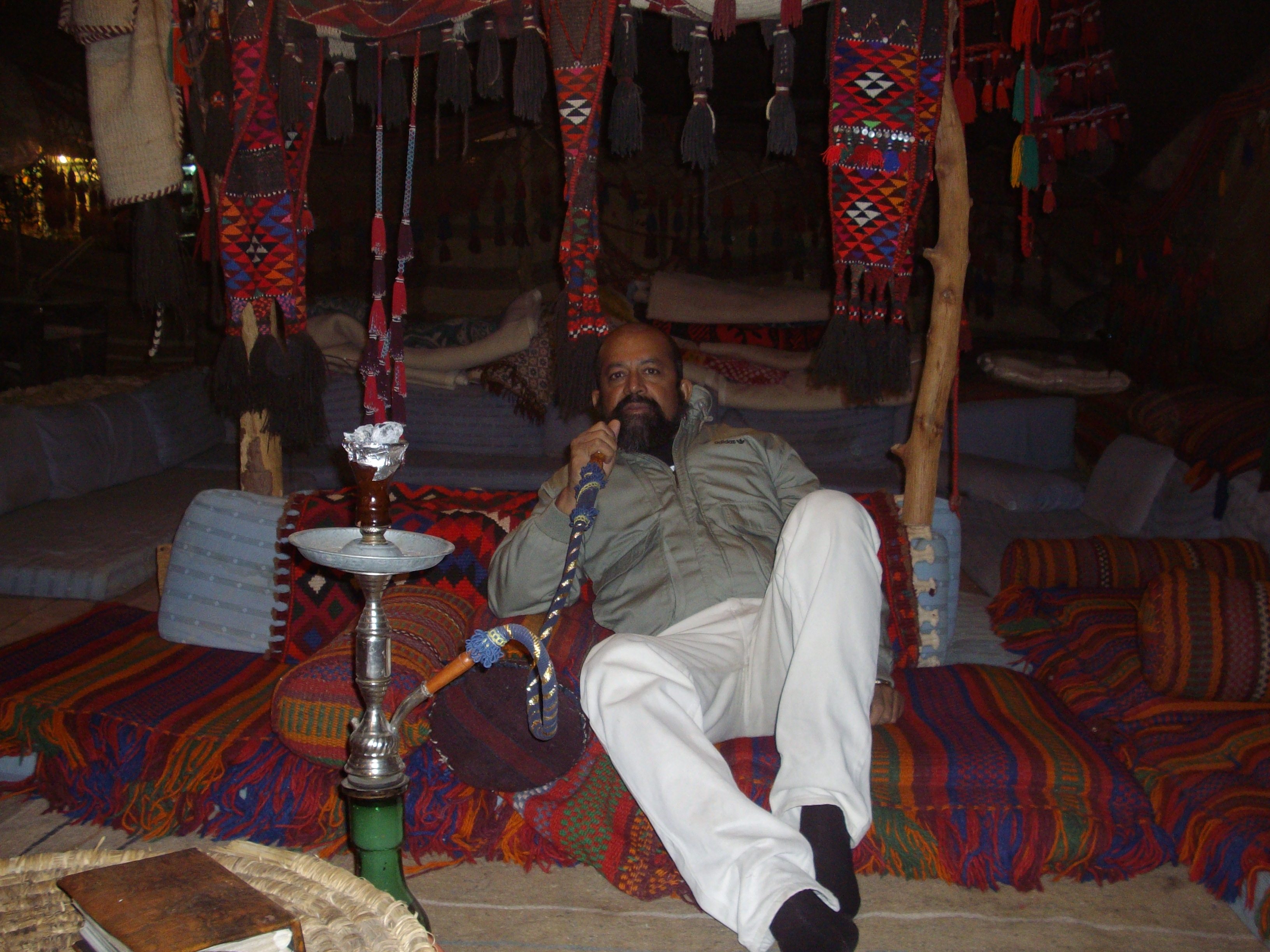 In a "Hookah Lounge" at "New Mogan Land Hotel" at "St Katherine Monastry" in Sinai(Egypt)[Monday 27-10-08)]